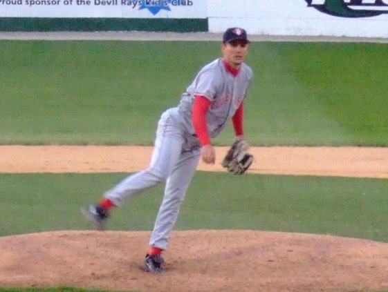 Robert Mosebach of the Cedar Rapids Kernels delivers a pitch to Christian Lopez of the Southwest Michigan Devil Rays during a 2006 game in Battle Creek, Michigan.